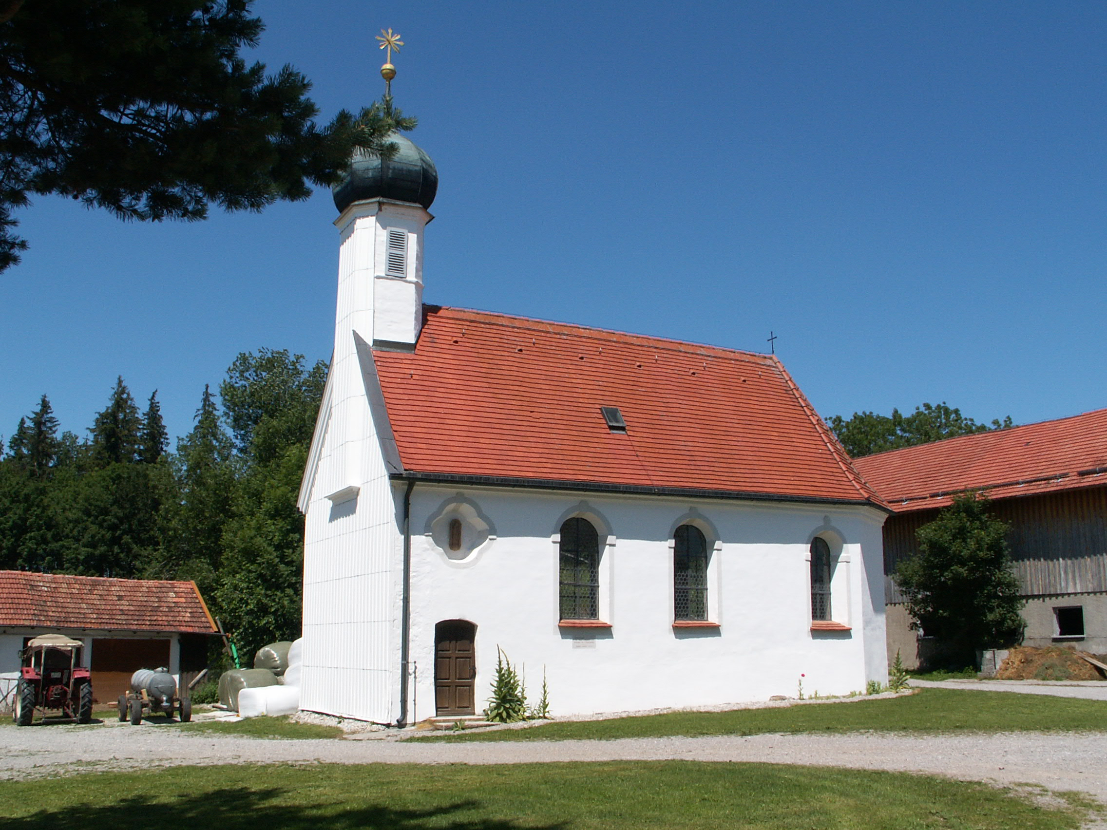 Kapelle Königsried, Bidingen